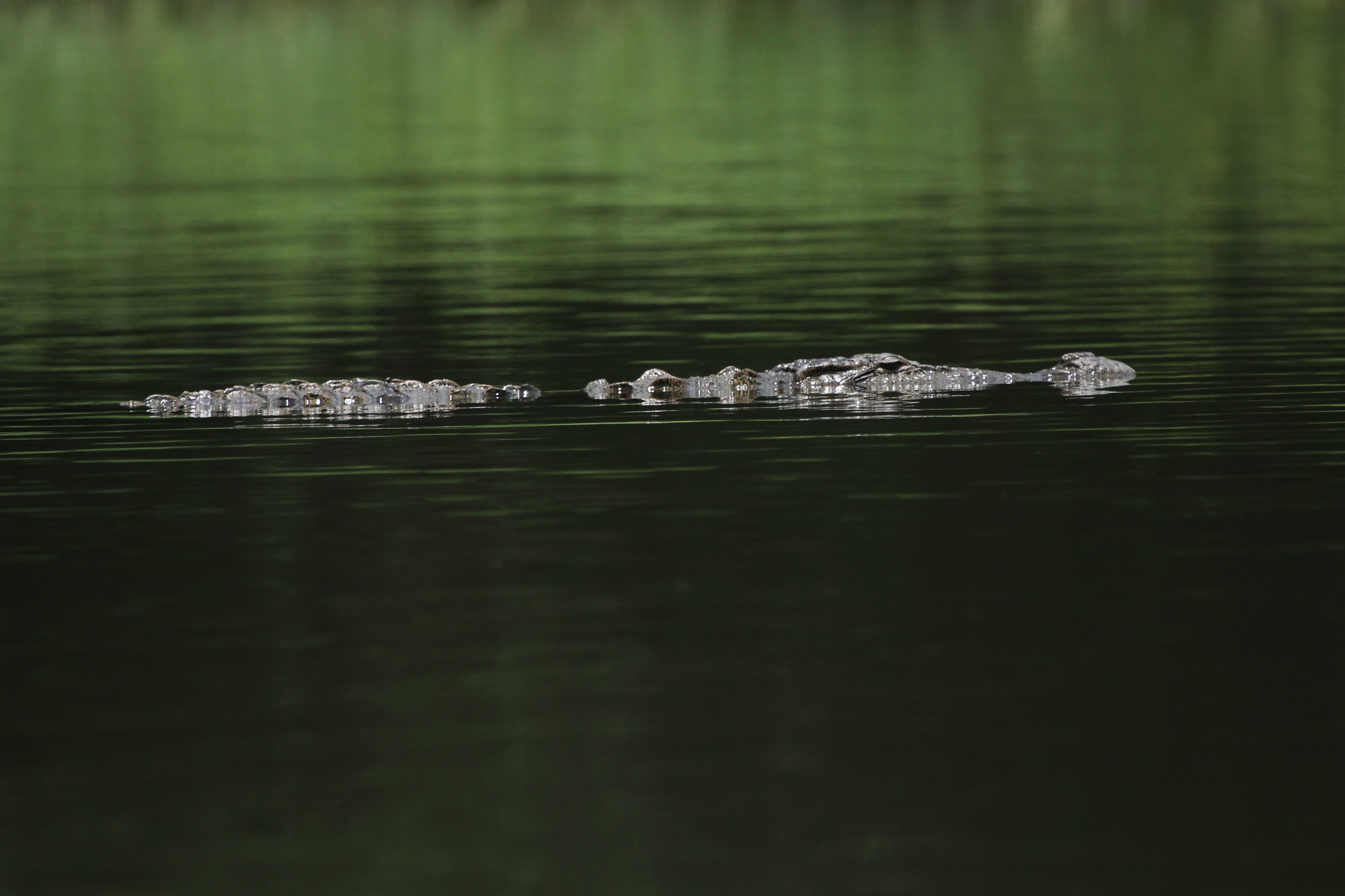 Crocodile swimming in the water